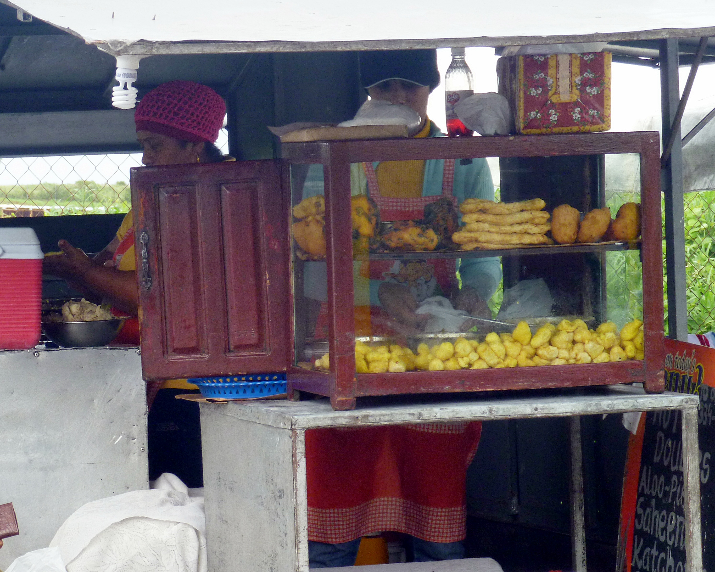 Popular "street foods" include doubles, saheena, aloo pies, kuchorie, baiganie, pholourie ... These are cooked on the spot or made at home and then sold from carts or vehicles.